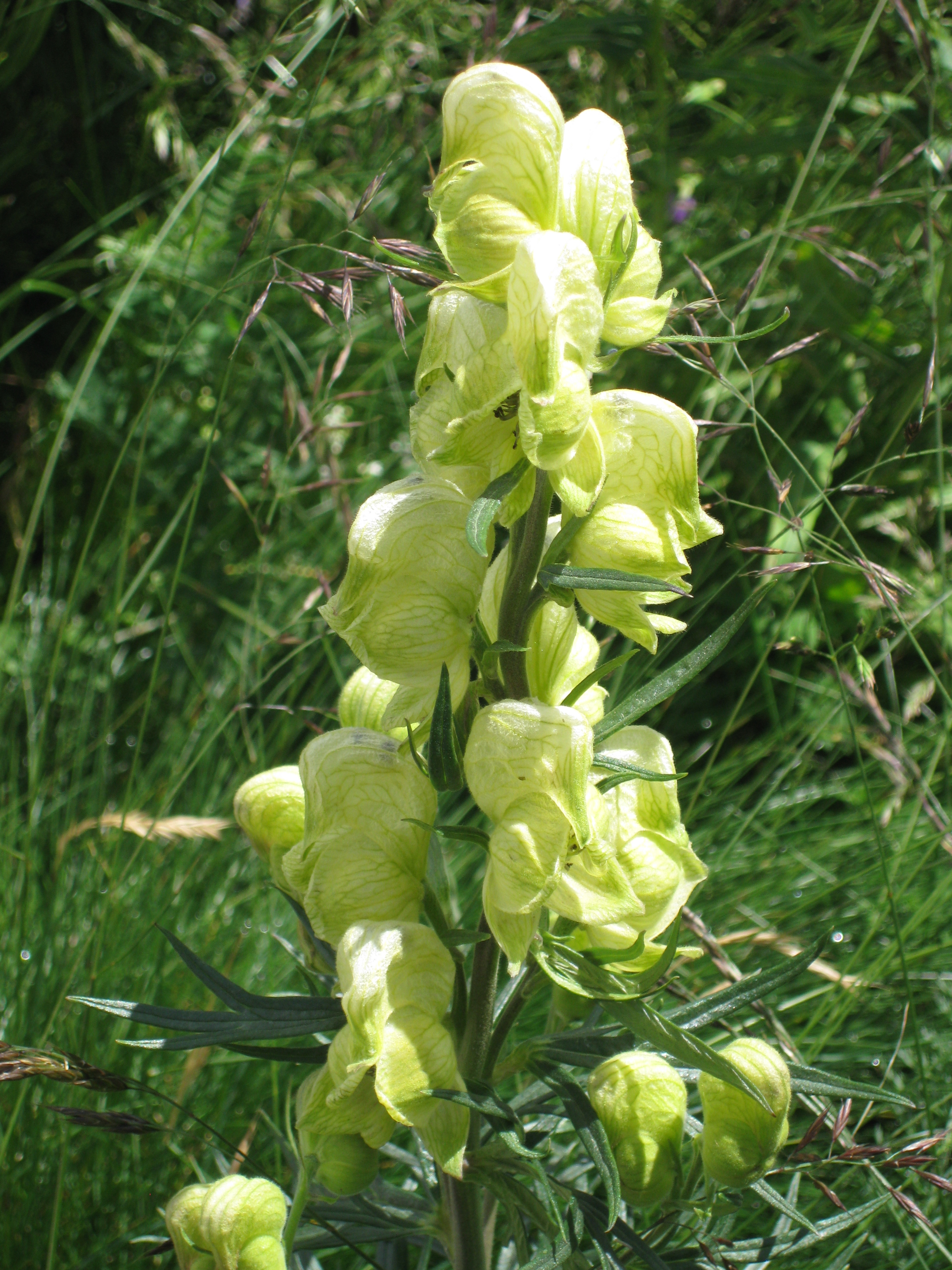 Aconitum anthora in the Jardin Botanique Alpin du Lautaret